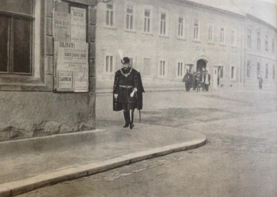 ban Pavao Rauch, st. Mark's Square, Zagreb, Croatia